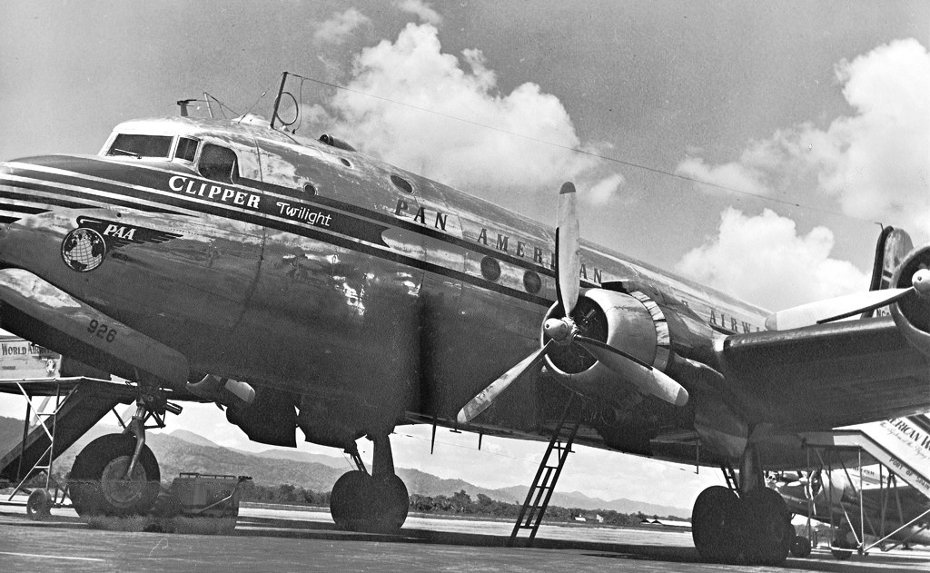 Photo taken at Piarco Airport, Trinidad in the 1950s